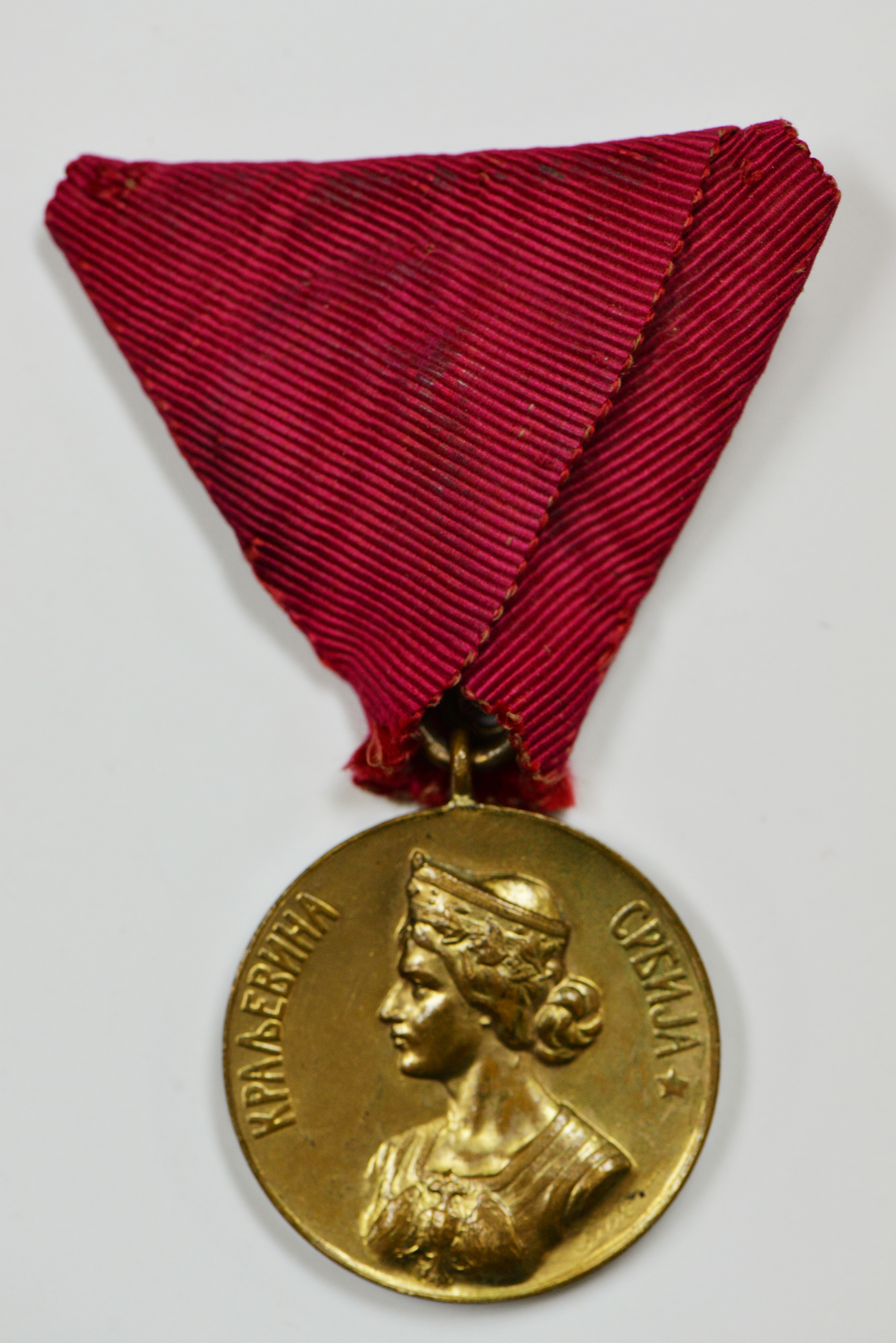 First type of Medal for Bravery of Kingdom of Serbia (author: Đorđe Jovanović) - obverse, Decorations collection, inventory number 308 Srpski (latinica): Prvi tip Medalje za hrabrost Kraljevine Srbije (autor: Đorđe Jovanović) - avers, Zbirka odlikovanja, inventarski broj 308